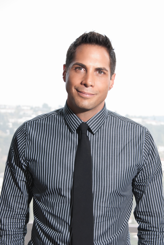 Joe Francis, Hollywood, California on February 8, 2013 - Photo by Glenn Francis and